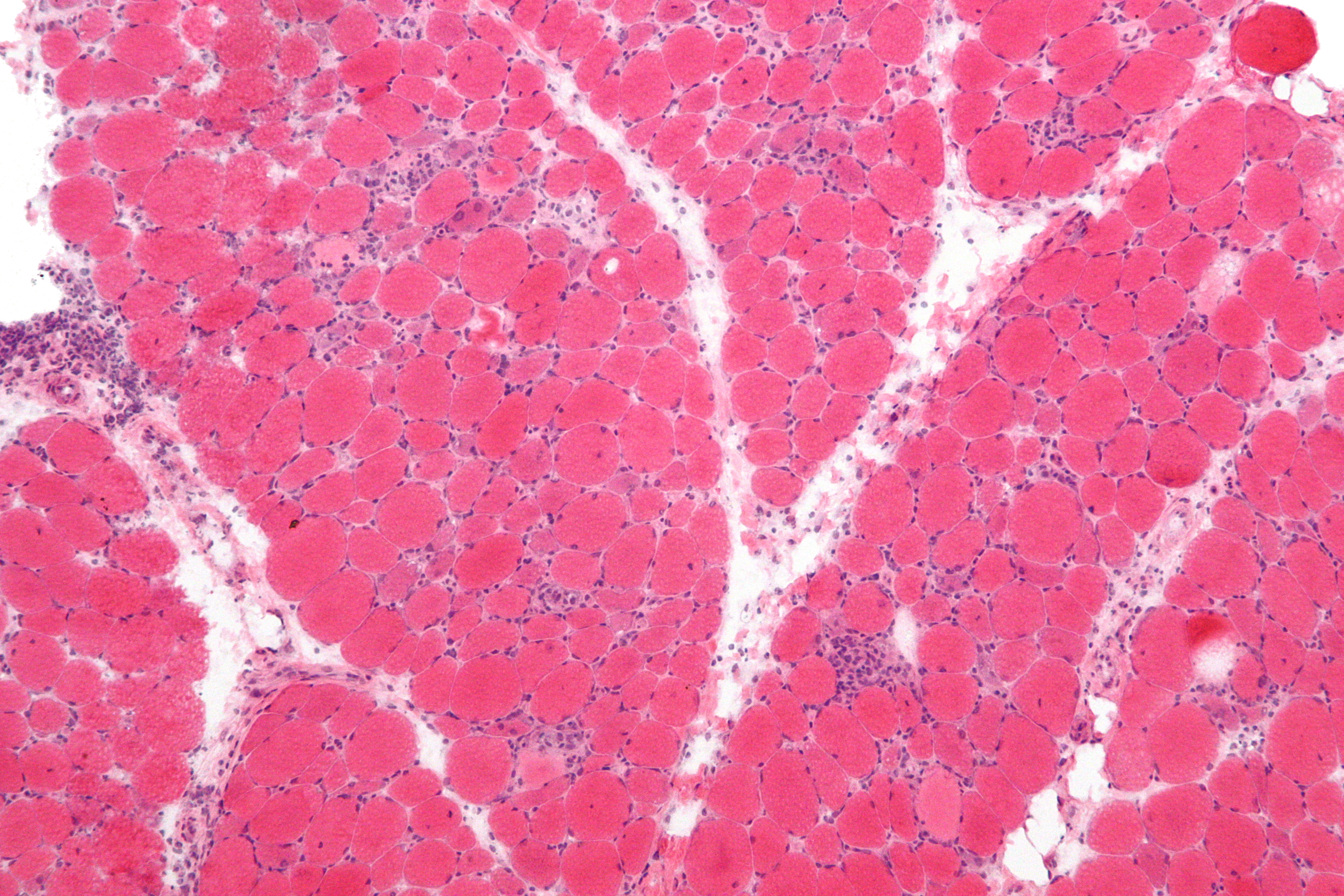 Intermediate magnification micrograph of dermatomyositis, a type of inflammatory myopathy. H&E stain. Related images Intermed. mag. High mag.